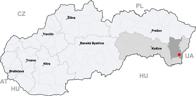 map of Slovakia, city of Veľké Kapušany highlighted